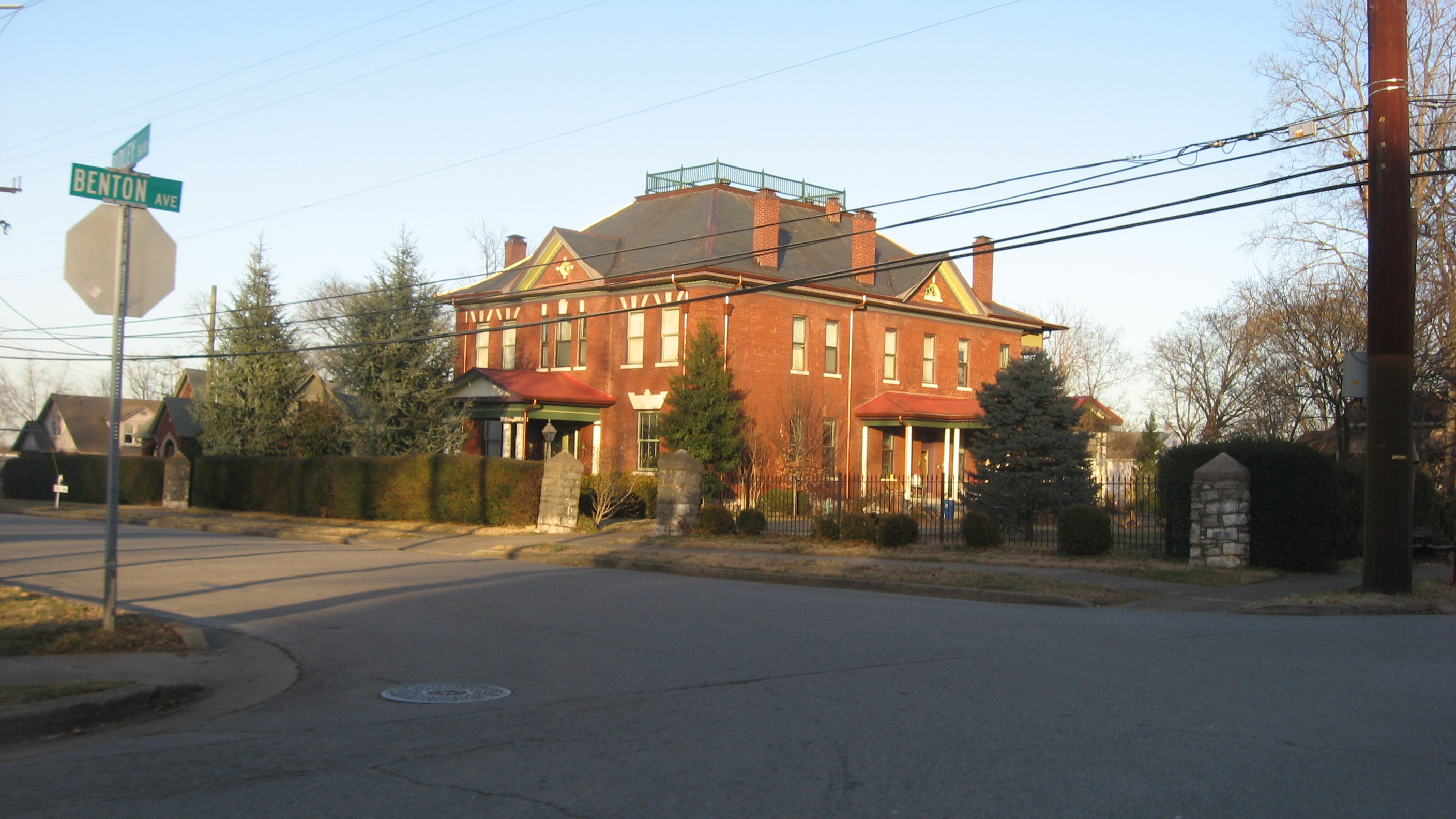 Front and western side of Robincroft, located at 746 Benton Avenue in Nashville, Tennessee, United States. Built in 1908, it is listed on the National Register of Historic Places, and it is part of a Register-listed historic district, the Woodland in Waverly Historic District.